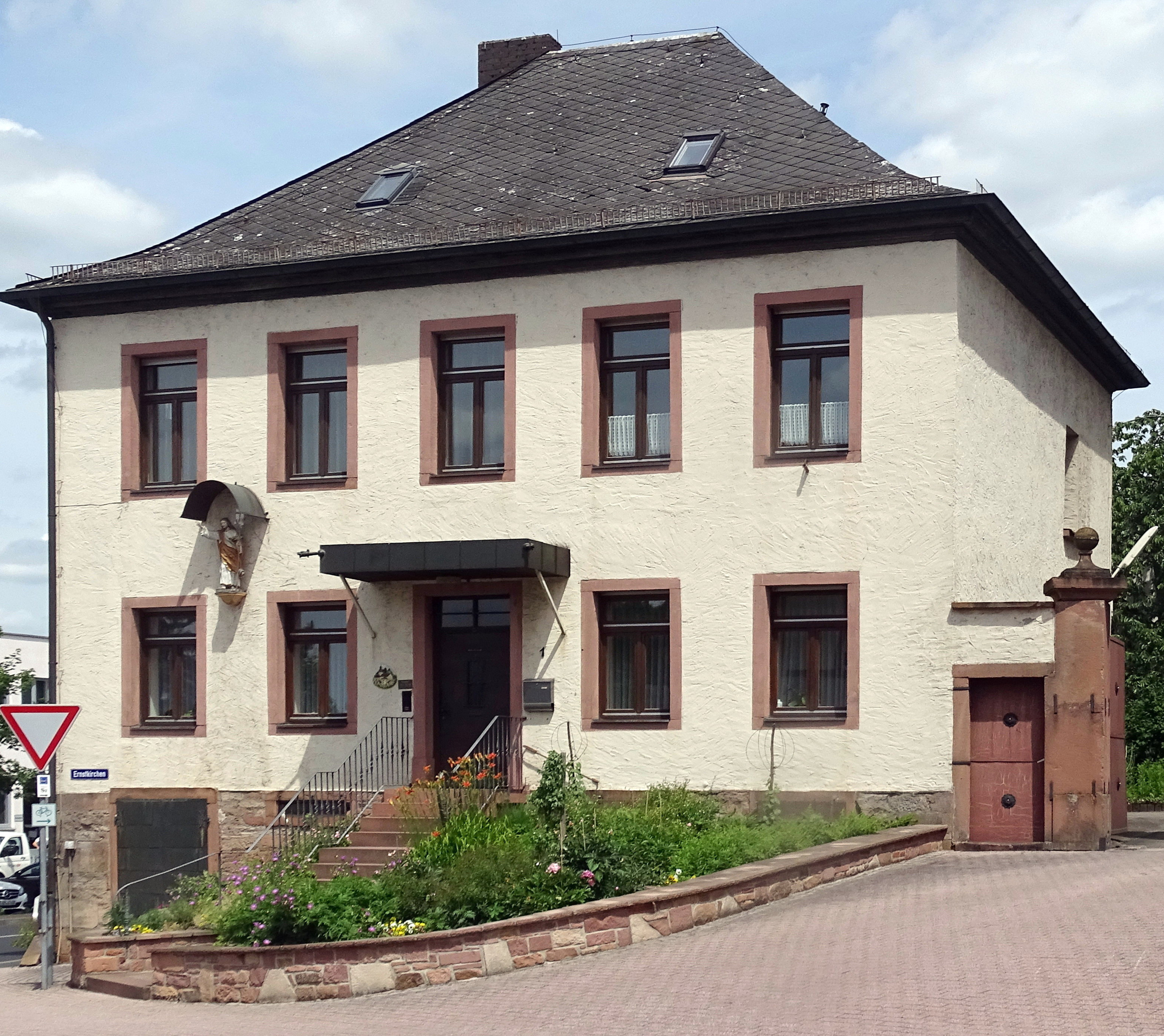 Catholic rectory in Schöllkrippen-Ernstkirchen, Ernstkirchen 1